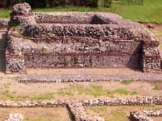 The Roman town of Industria (near Monteu da Po, provincia di Torino, Italy)